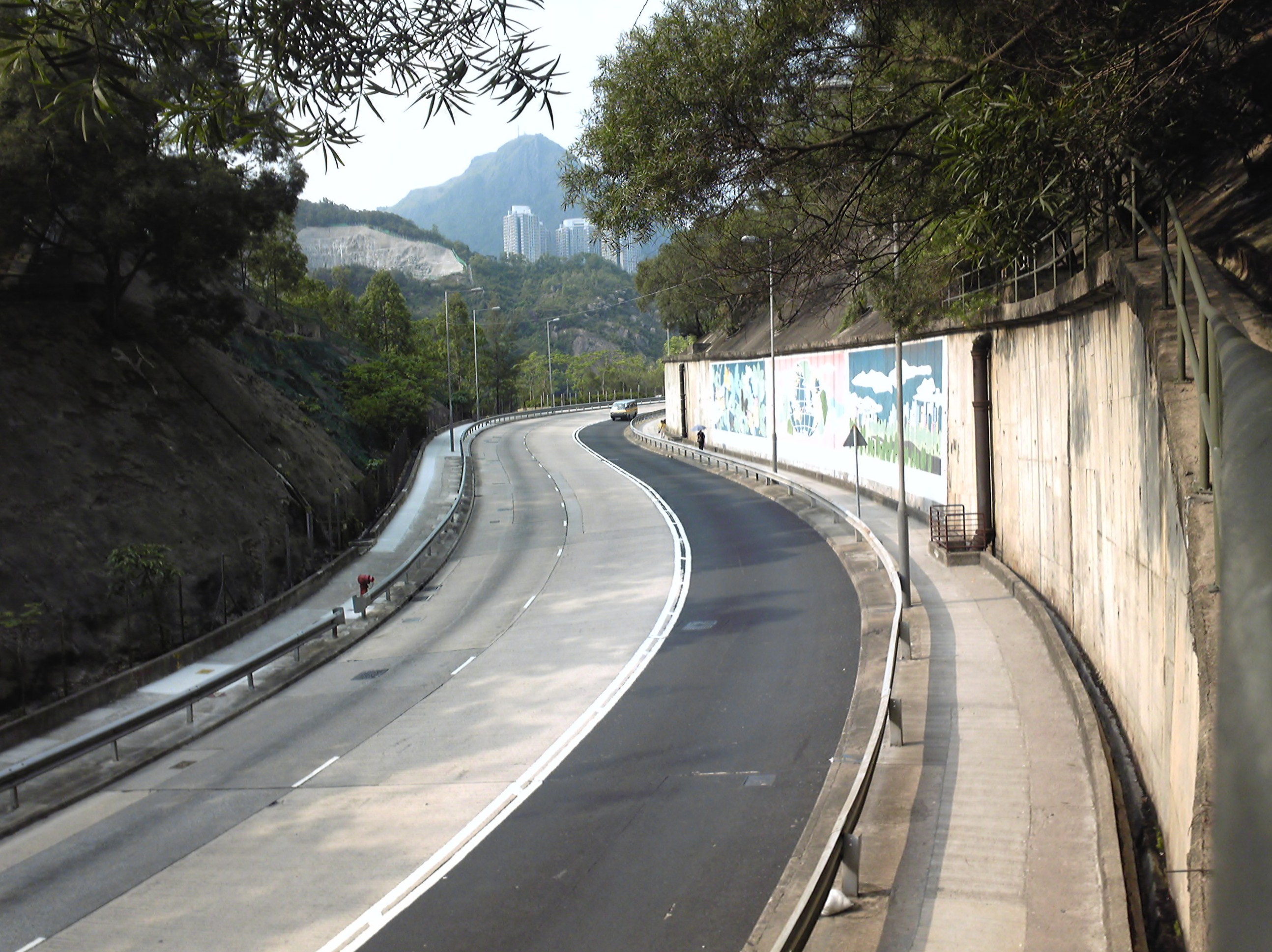 Looking towards the east from Chun Wah Raod. A view of Chun Wah Road is seen.